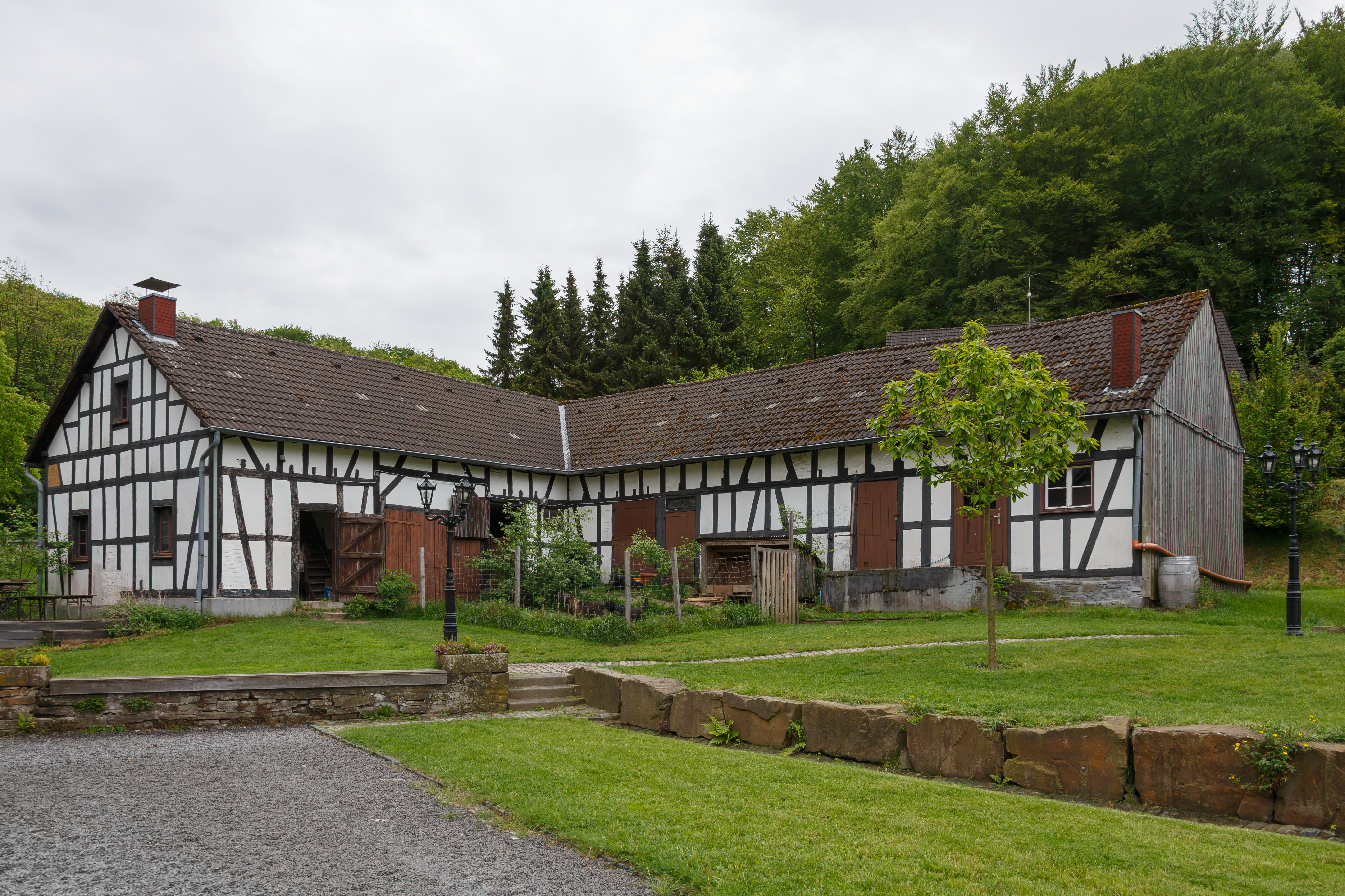 Rösrath, Deutschland: Timber framed house, belonging to listed building No 7: "Haus Stade"